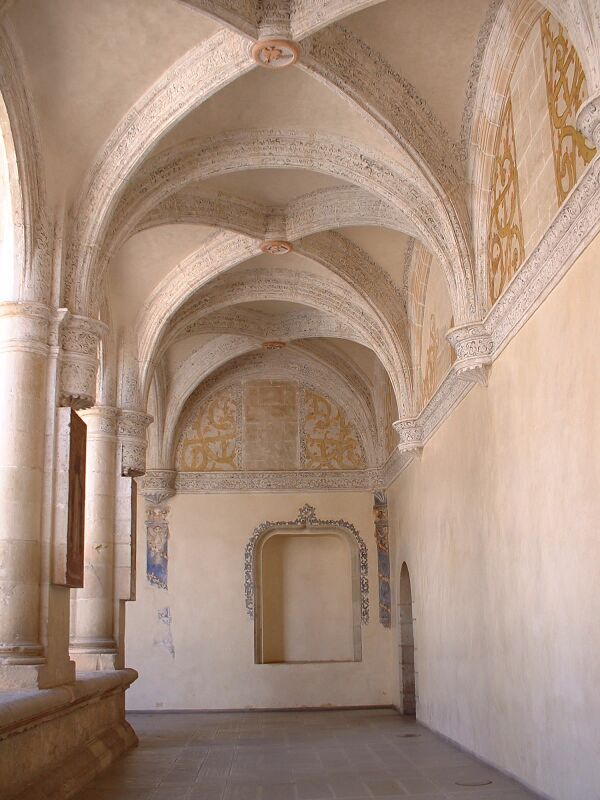 Cloister in the former monastery of Santo Domingo, Mexico.